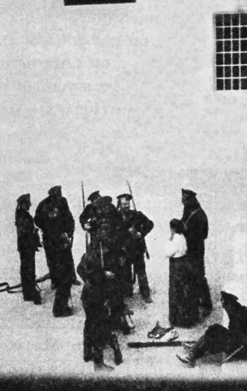 Bolshevists sailors of Black Sea Fleet of Russian Empire arraived to villa Dulber to make search of royal family